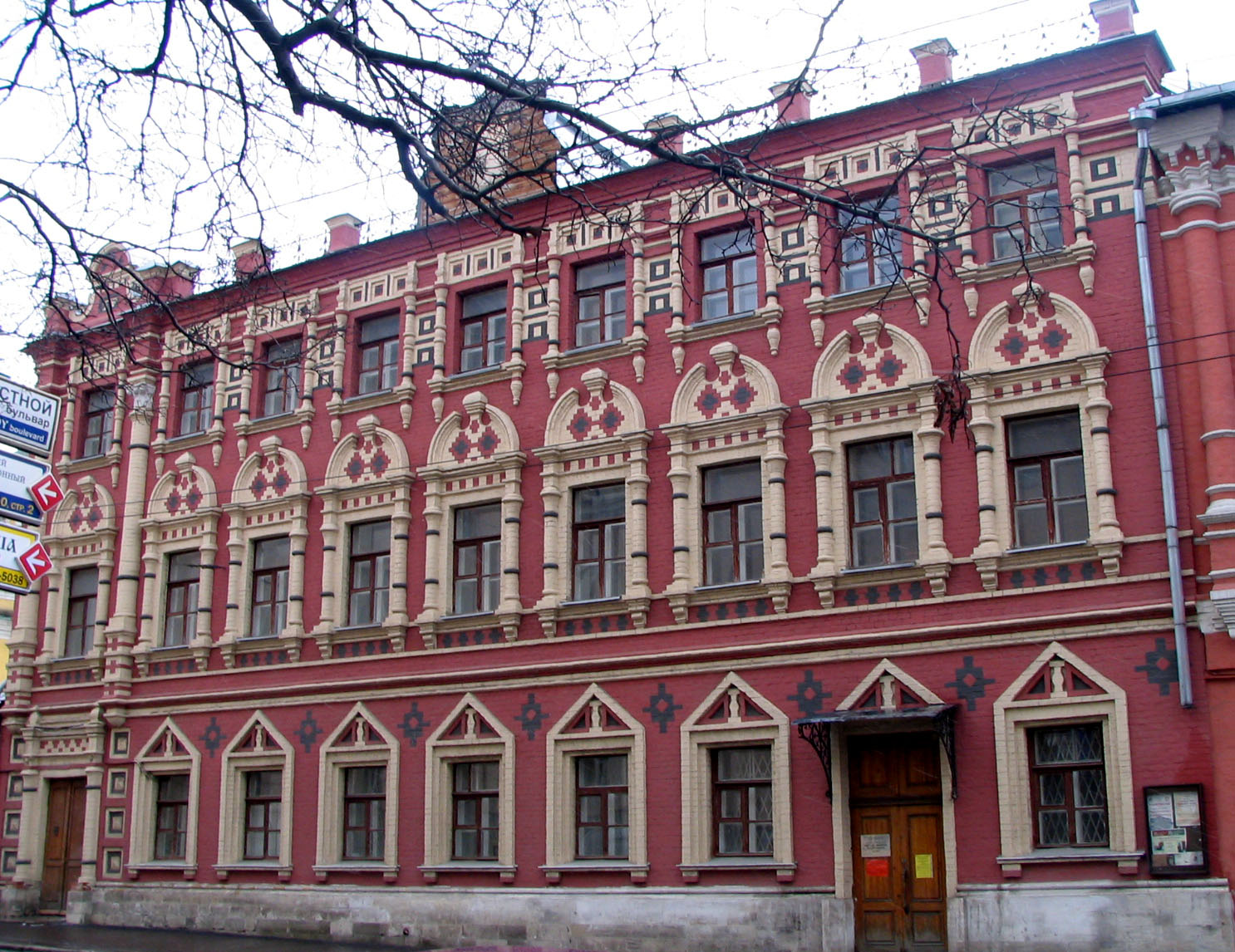 Petrovka Street, 28. Litmuzey. Moscow